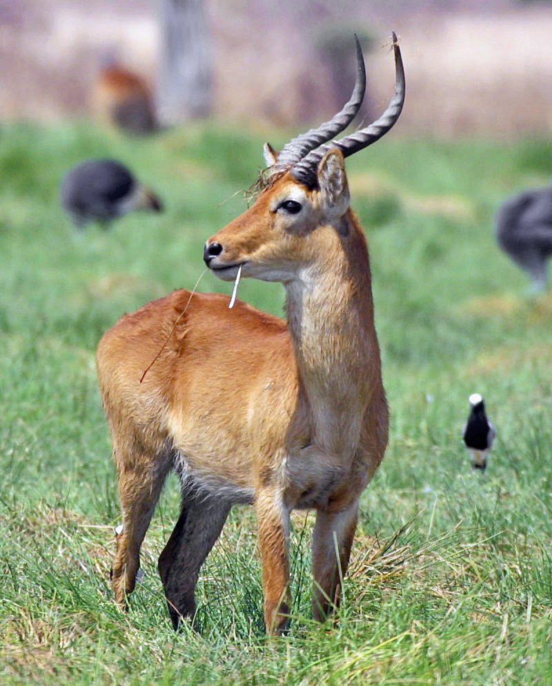 Puku Male, S. Luangwa, Zambia